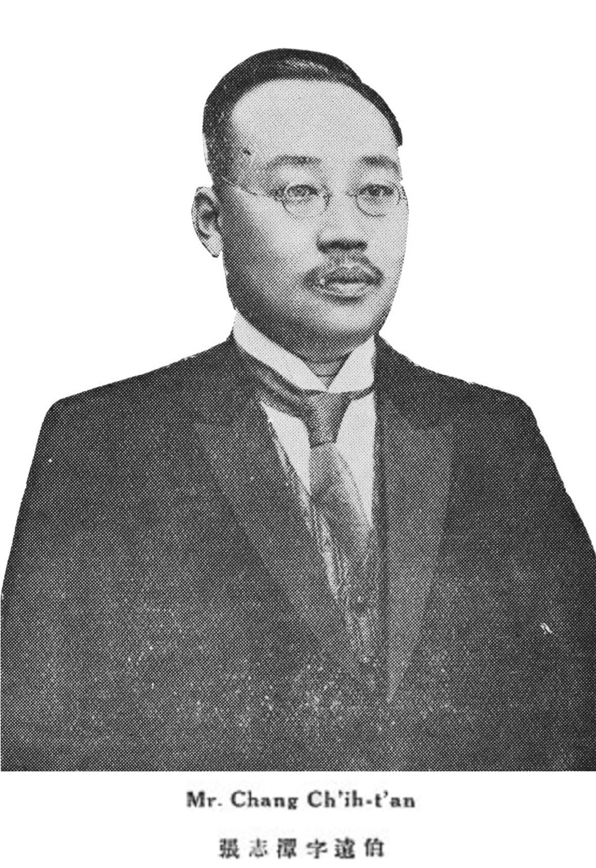 Zhang Zhitan, Yuanbo (1883 - 1946)